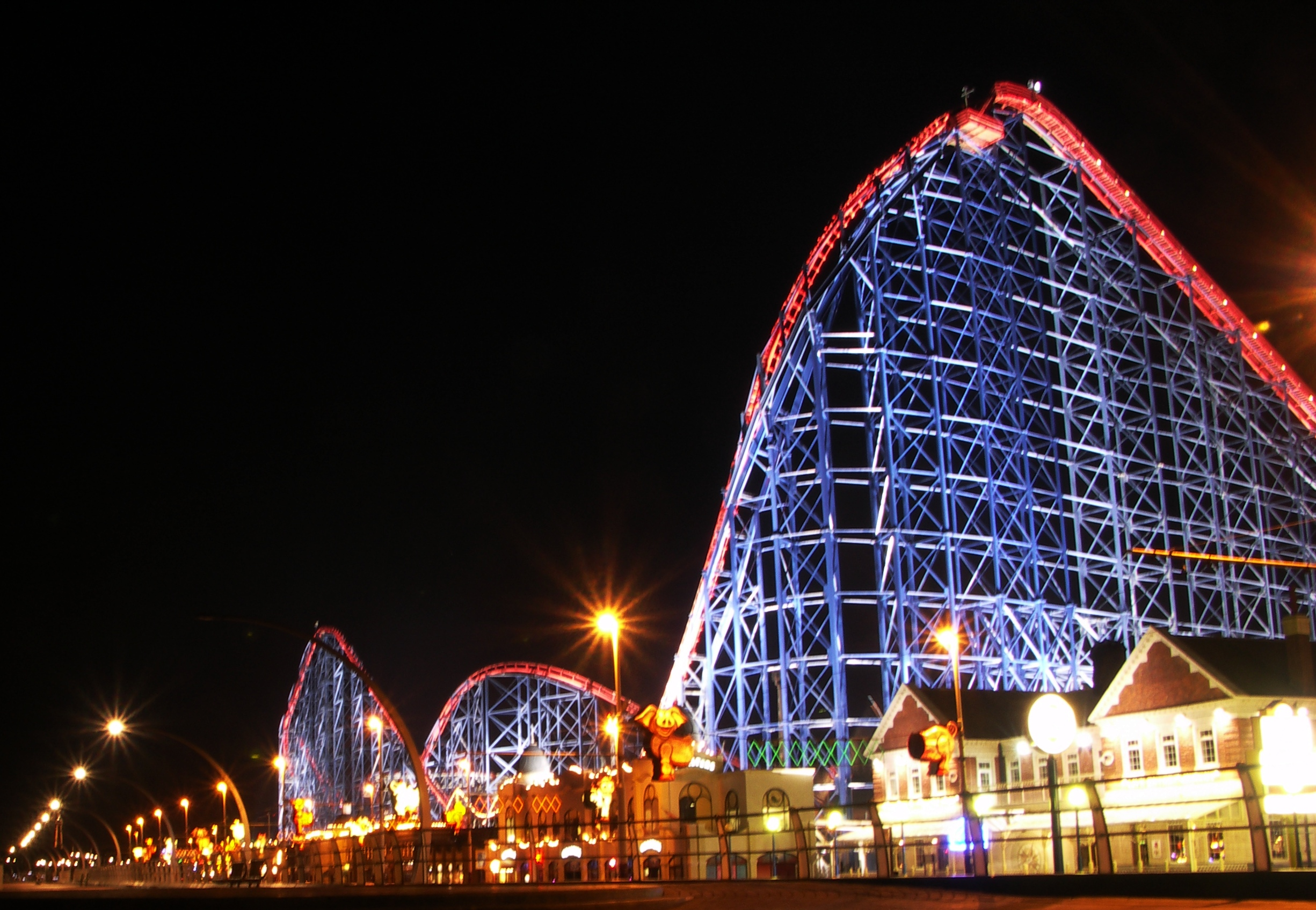 The Big One, Blackpool, Lancashire, at night